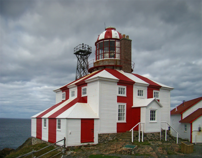 Cape Bonavista, Bonavista Peninsula, Eastern Newfoundland, Canada. Constructed in the early 1800s, this lighthouse went into operation in 1843. It is today a Provincial Historic Site.